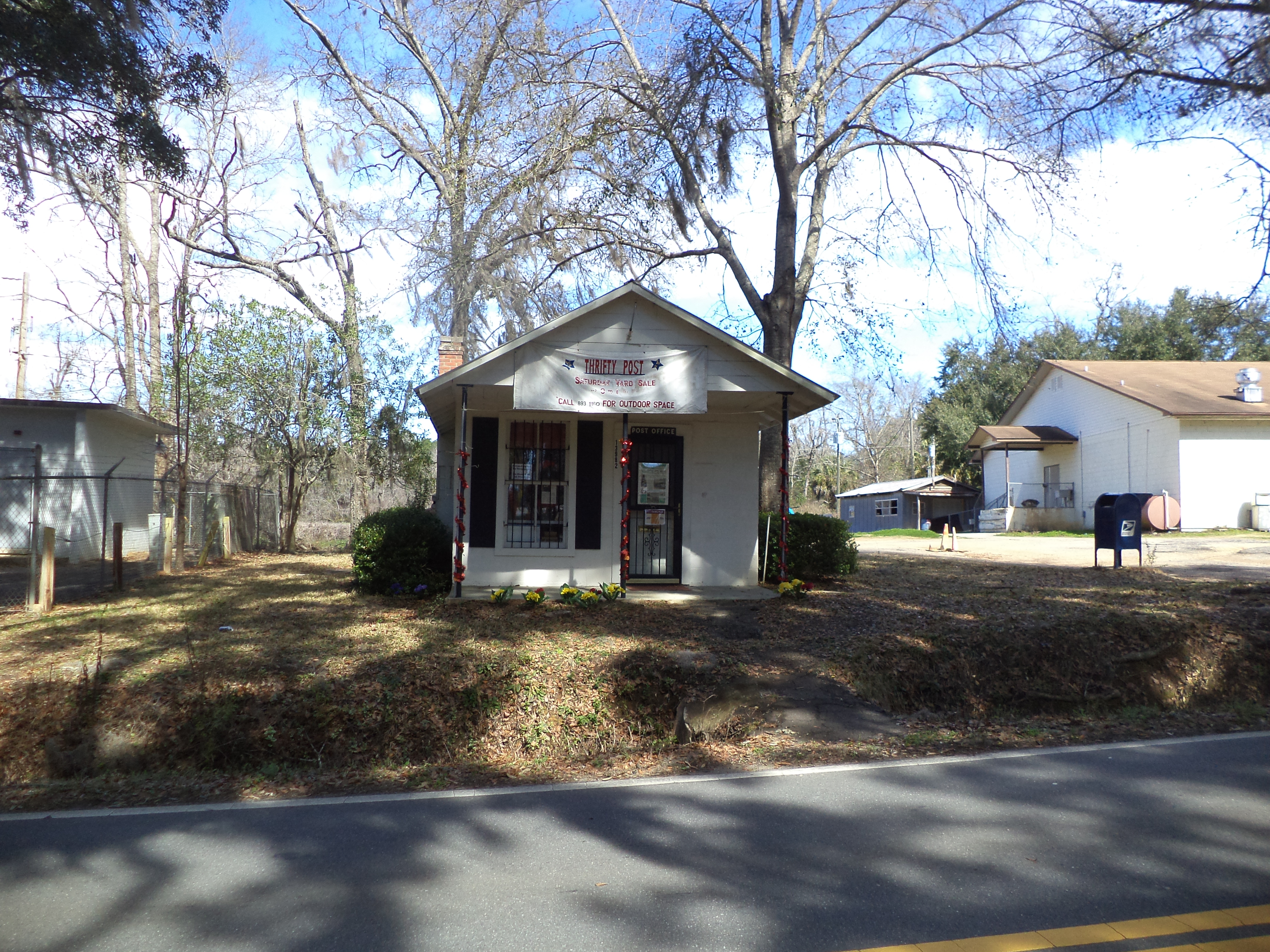 Miccosukee Post Office, 1400 Moccasin Gap Rd., Tallahassee, Leon County, Florida. This has a Tallahassee address but is not physically in the city.